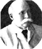 Joseph T. Jones, circa 1900